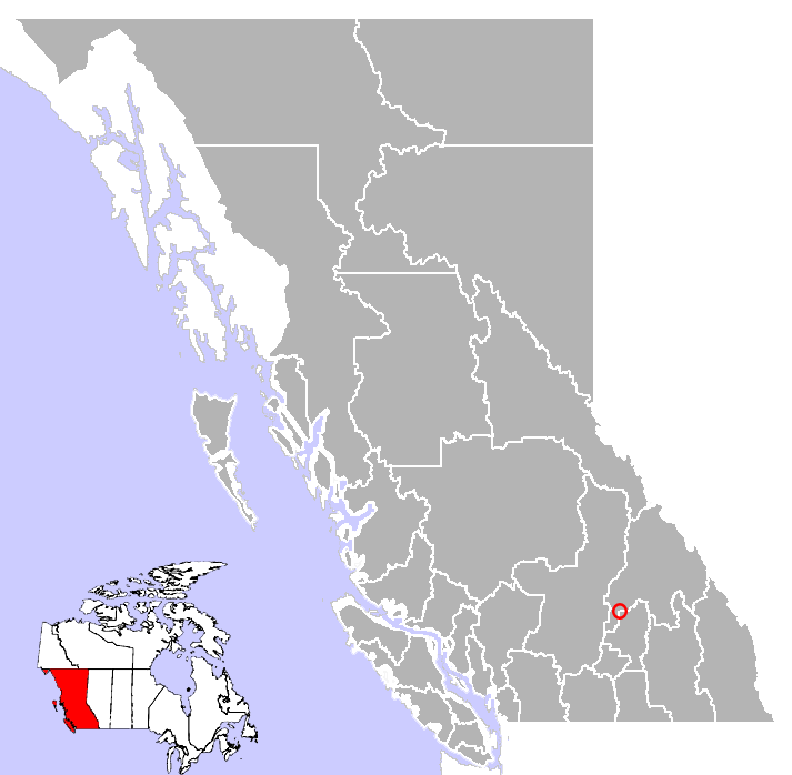 Sicamous, British Columbia location.